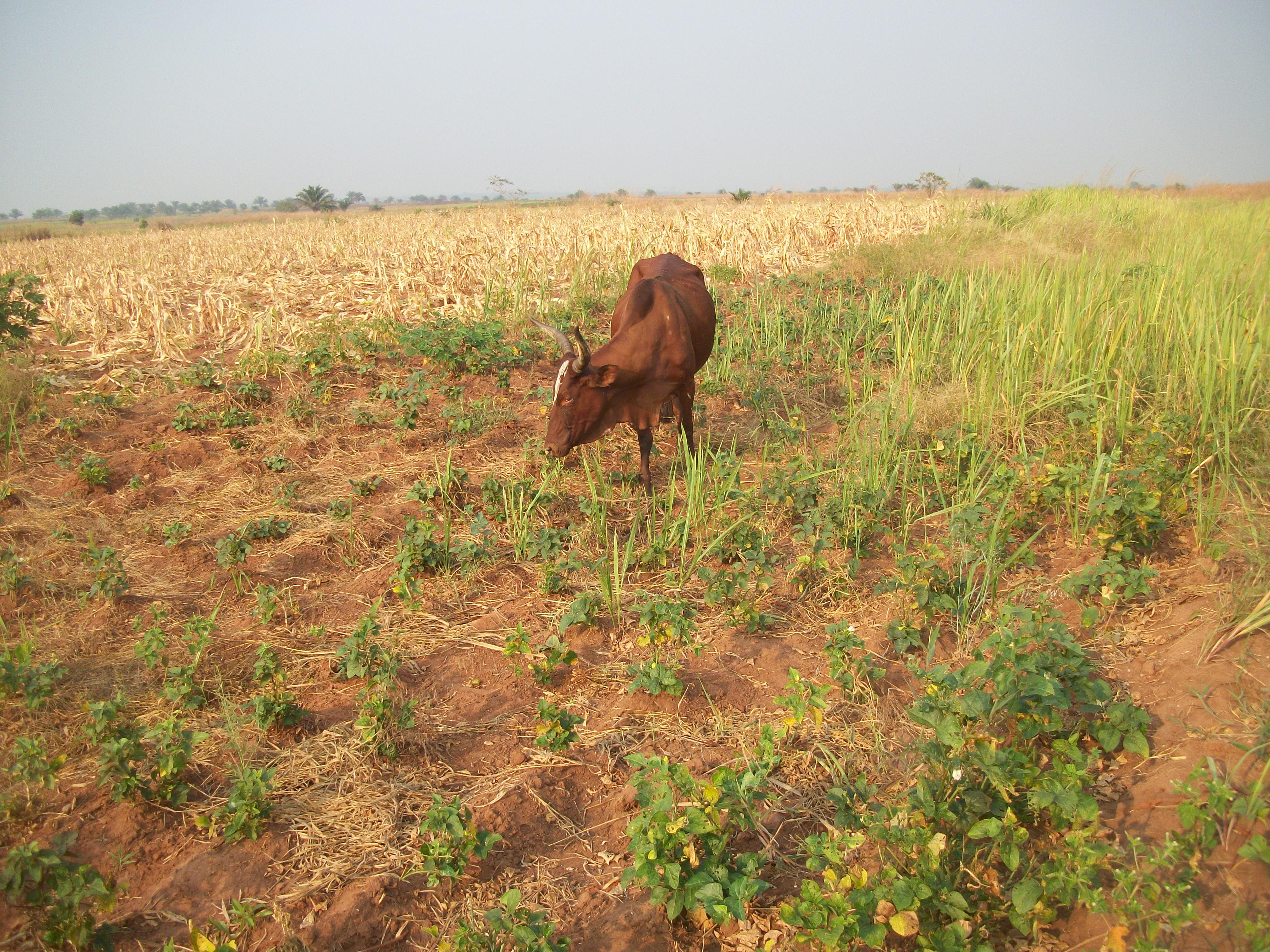 This picture was taken in Bakwa Tshileo in the field were cows were being feed. As you can see in this picture, the cow is eating in the field of Bakwa Tshileo